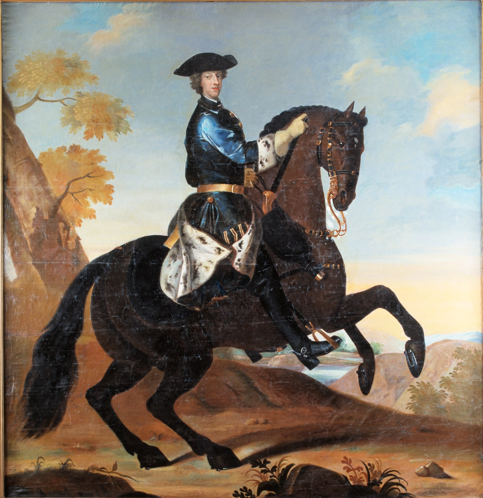 Karl XII at horse